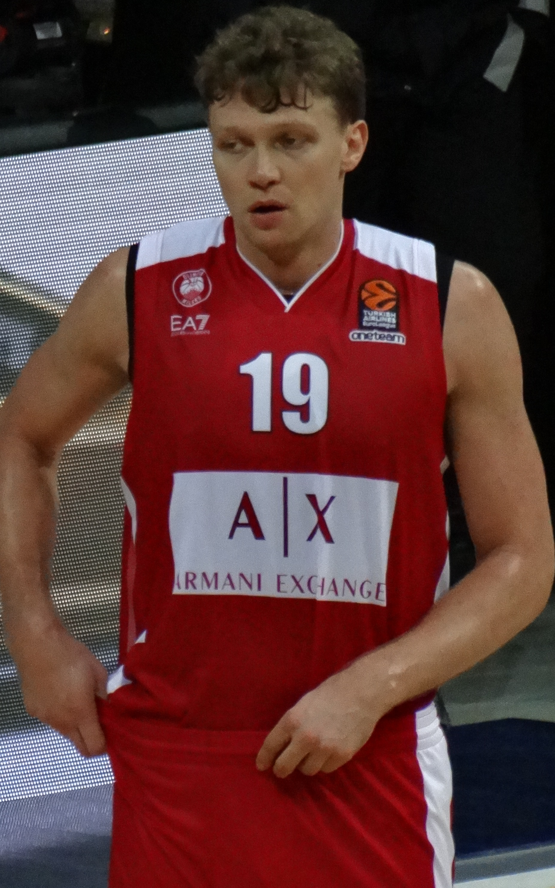 Mindaugas Kuzminskas 19 AX Armani Exchange Olimpia Milan 20180222